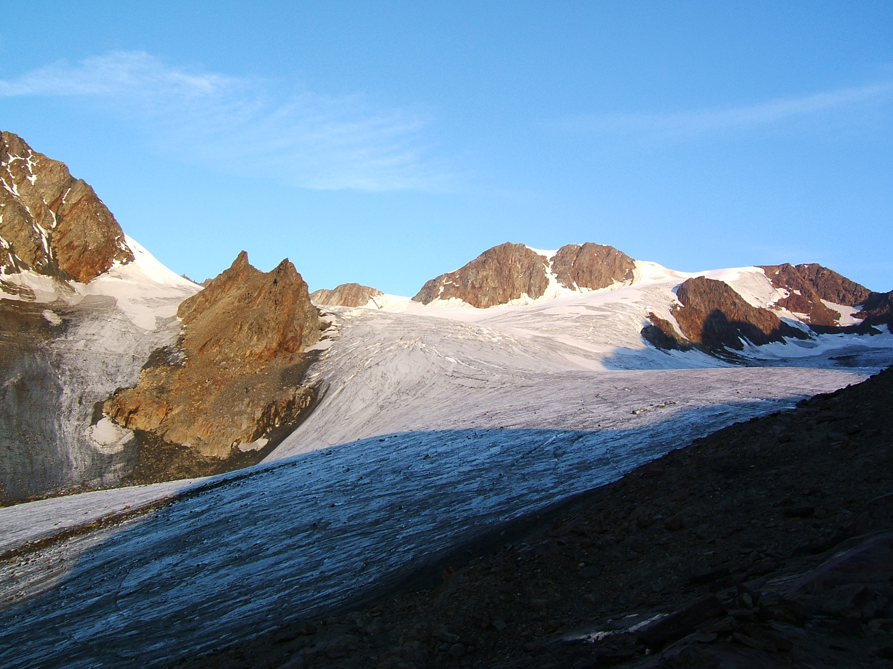 Guslarferner from East